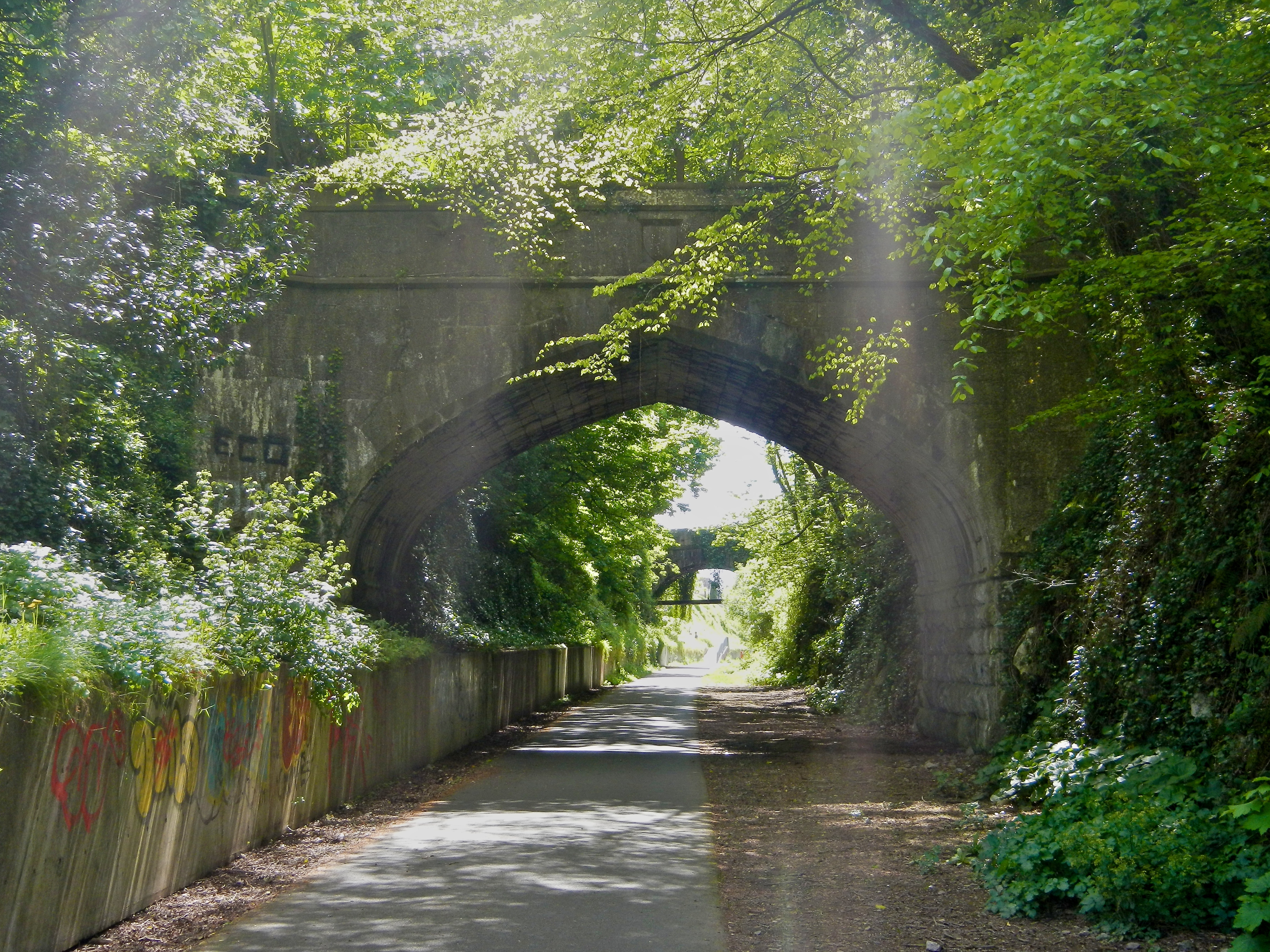 Blackrock, Cork, Ireland